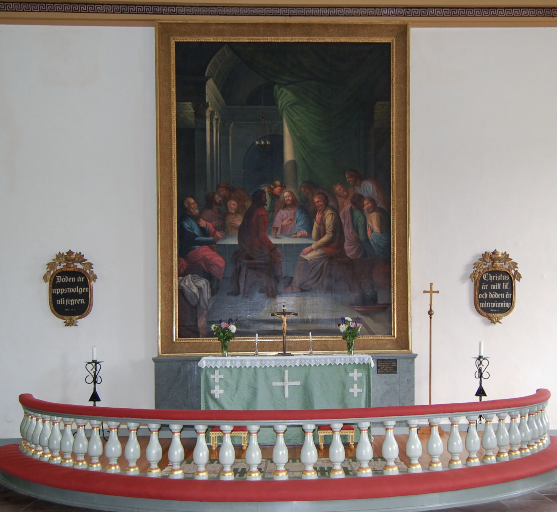 Nöbbele Church.The Choir